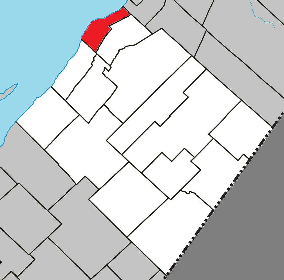 Location of Saint-Roch-des-Aulnaies, Quebec within L'Islet Regional County Municipality.